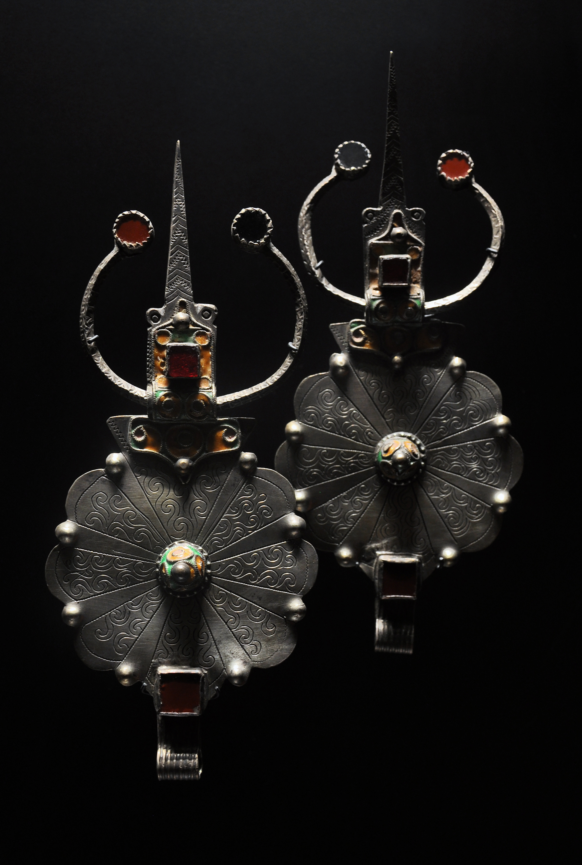 Berber fibules, silver. Musée du Quai Branly, Paris, France.